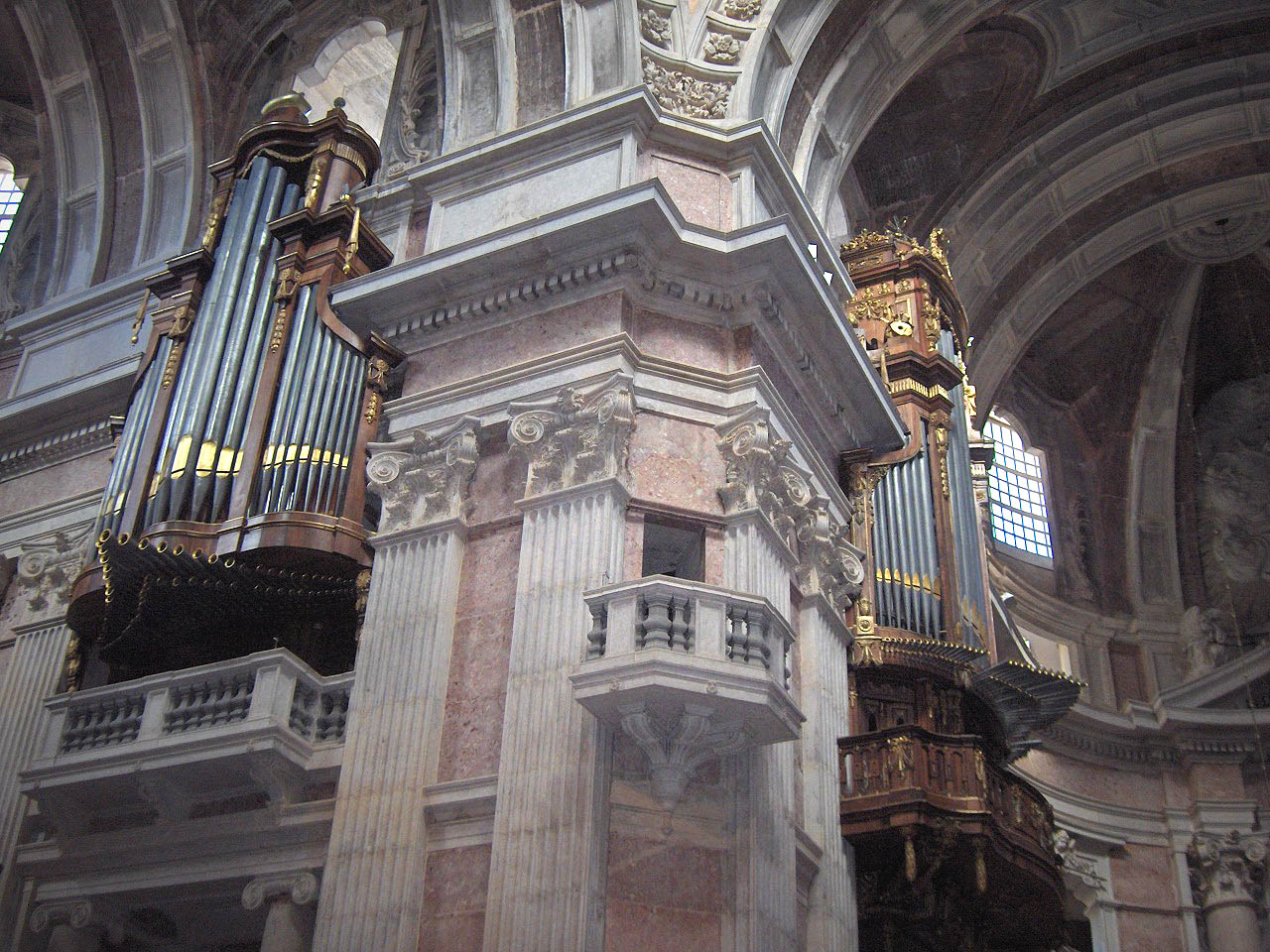 Pipe organs of the church in the Mafra National Palace; Mafra, Portugal